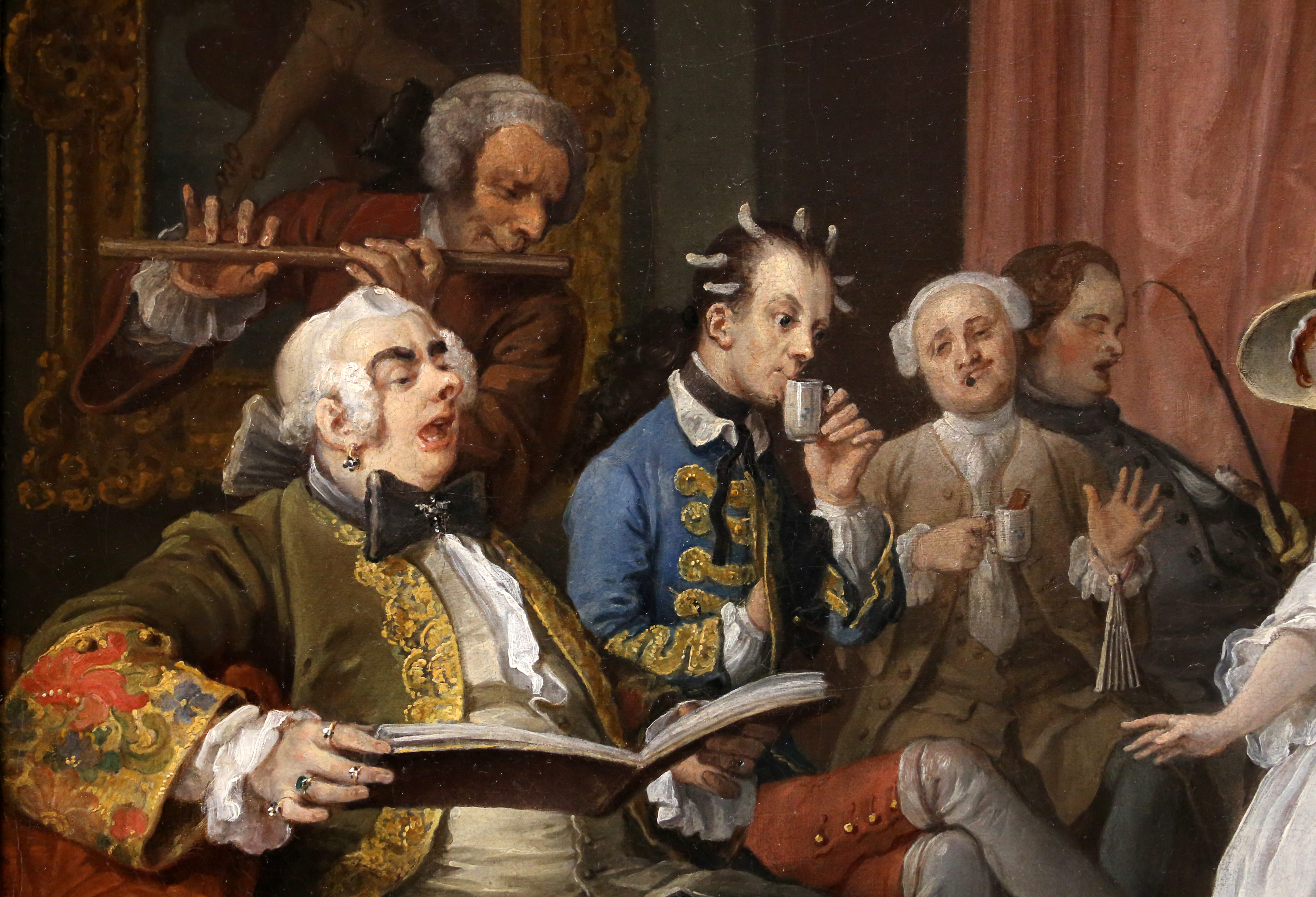 Paintings by William Hogarth in the National Gallery, London